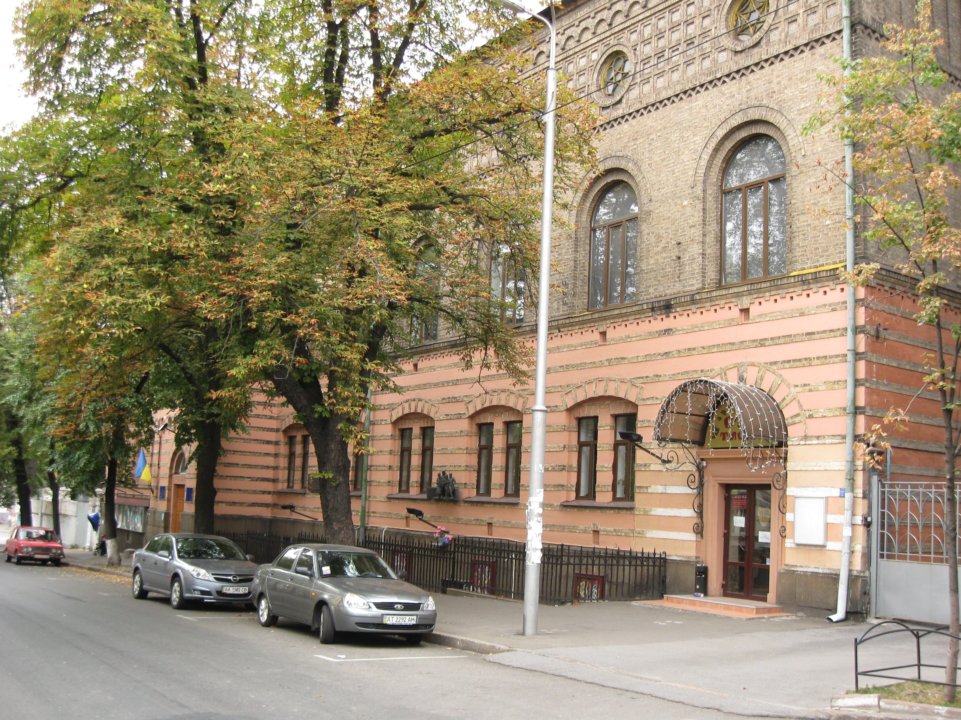 National University of Theatre, Film and TV in Kiev. 40, Yaroslaviv Val Street.